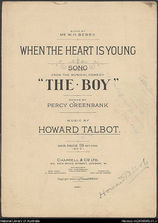 Sheet music to "When the heart is young", words by Percy Greenbank; music by Howard Talbot from the musical The Boy. Date: 1917; Published: London; Melbourne by Chappell & Co.